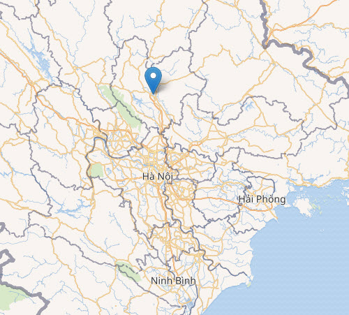 Lt Ralph T Browning was shot down over N Vietnam in the late afternoon of 8 July 1966 in his F-105D, tail number 0158. This map shows that location where he went down. He was then imprisoned as a POW for 6-and-a-half years.